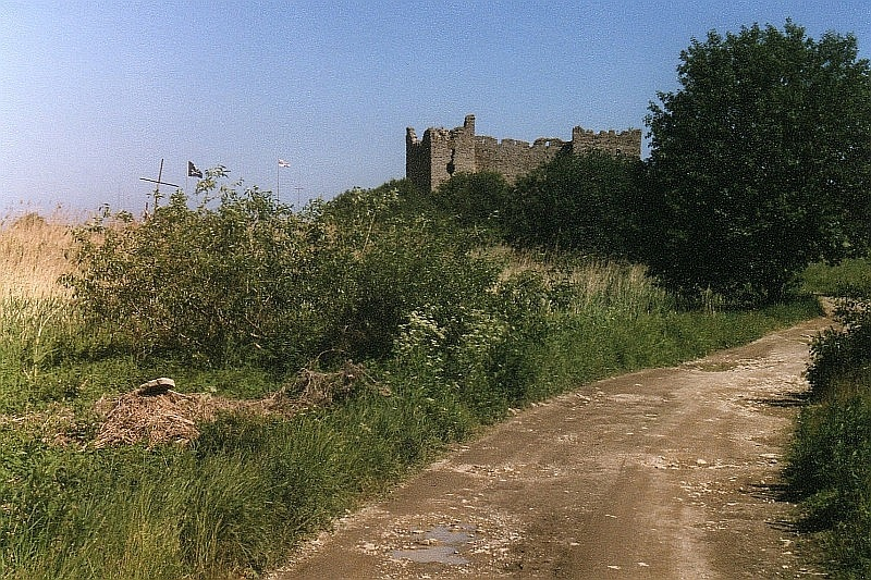 The old fortress of Toolse on the northest Estonia.